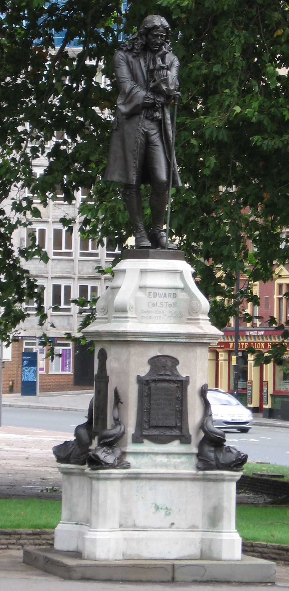 Erected in 1895, on 7 June 2020 the statue was defaced, toppled and thrown into Bristol harbour during the George Floyd protests.